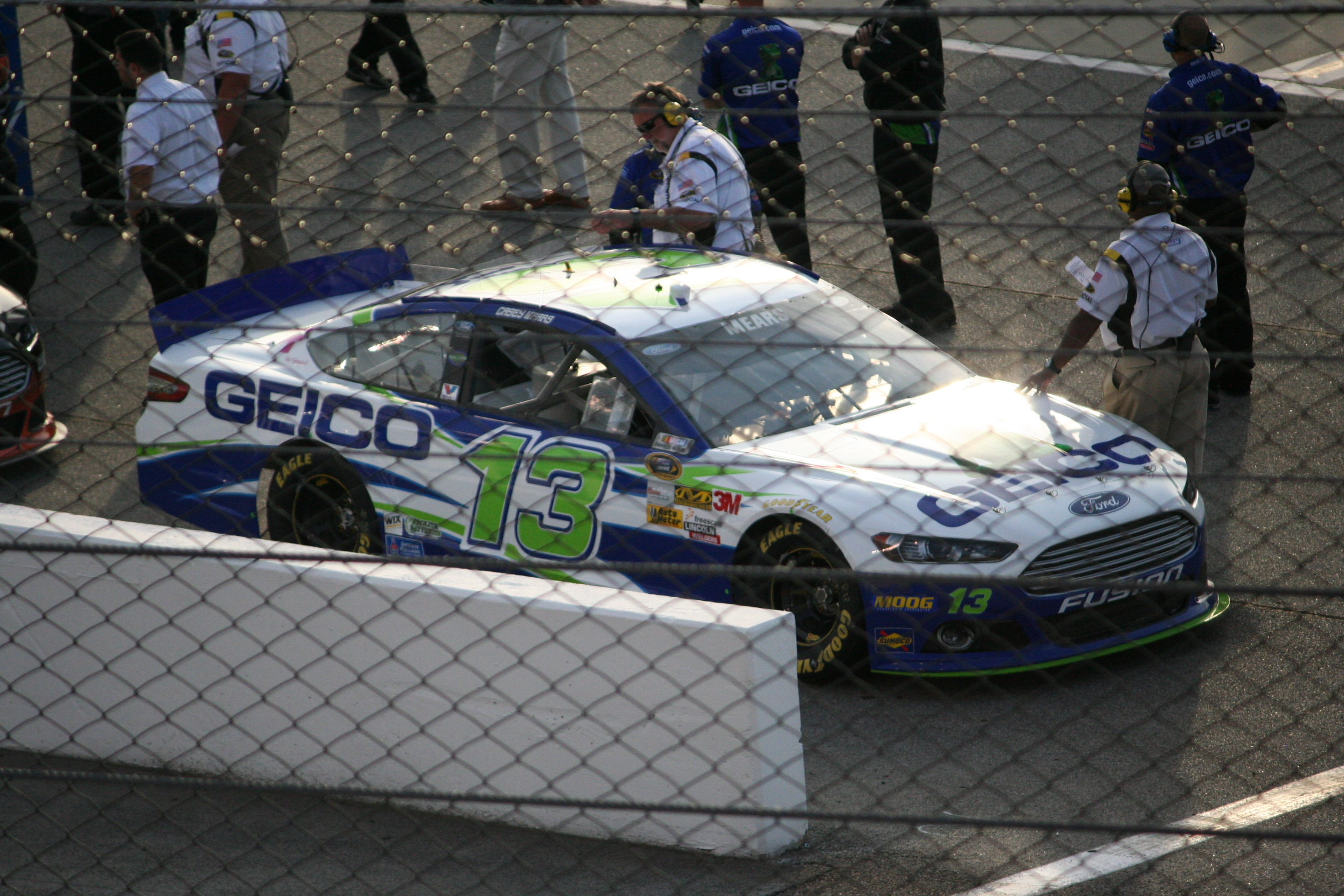 Casey Mears' No. 13 Geico Ford waits its turn to qualify for the NASCAR Sprint Cup Series Toyota Owners 400 at Richmond International Raceway, April 26 2013.